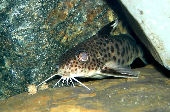 My most elusive fish finally caught on camer. His cornea is reflective so the cloudiness of his eye is an effect of the flash. How do I darken it?